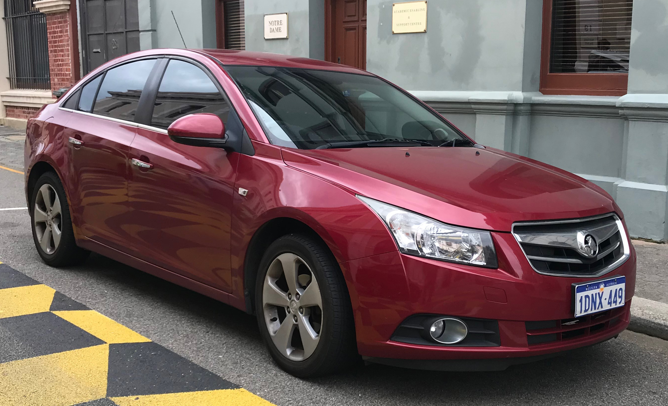 2009-2010 Holden Cruze (JG) CDX sedan. Photographed in Fremantle, Western Australia, Australia.